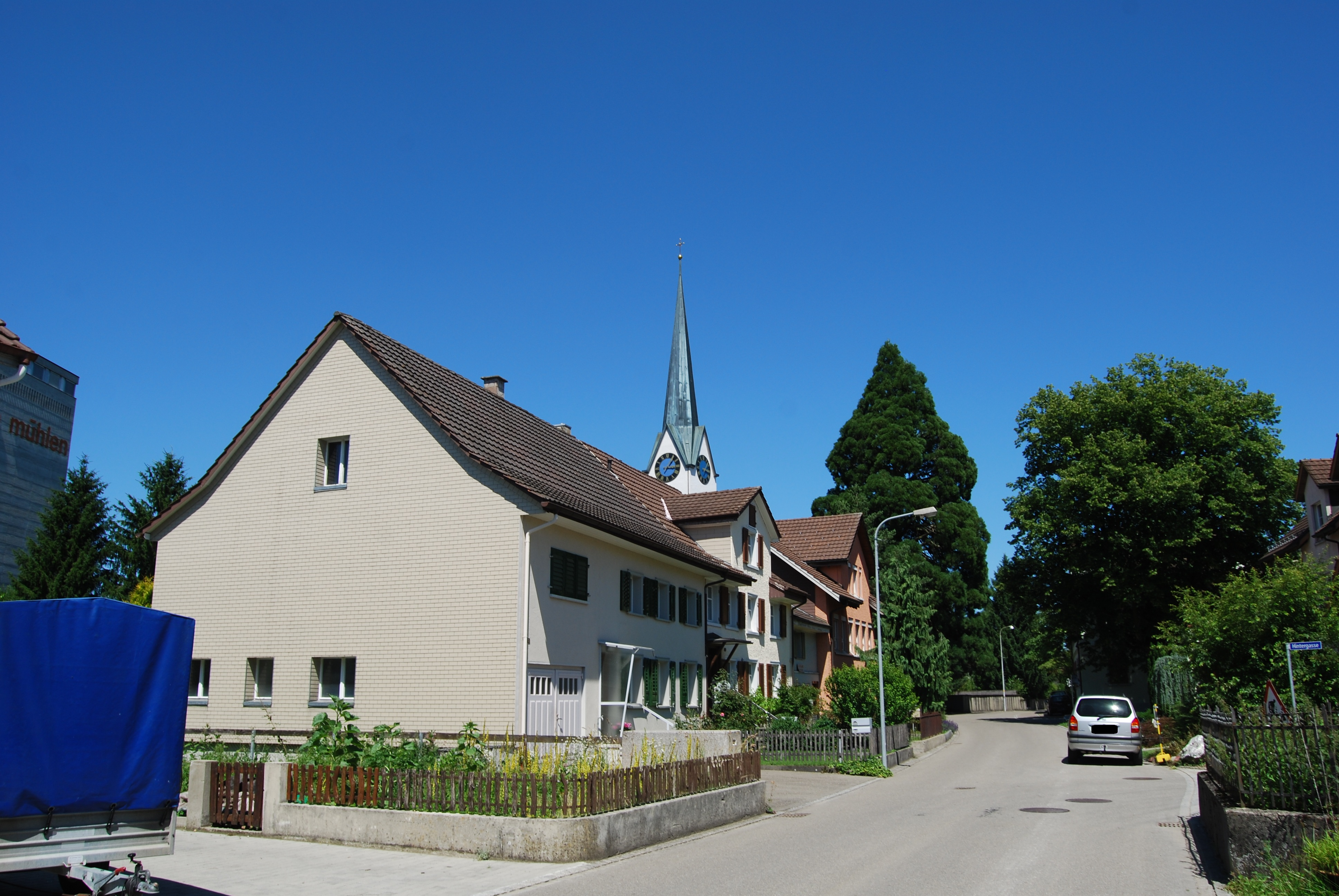 Rickenbach, canton of Thurgovia, Switzerland